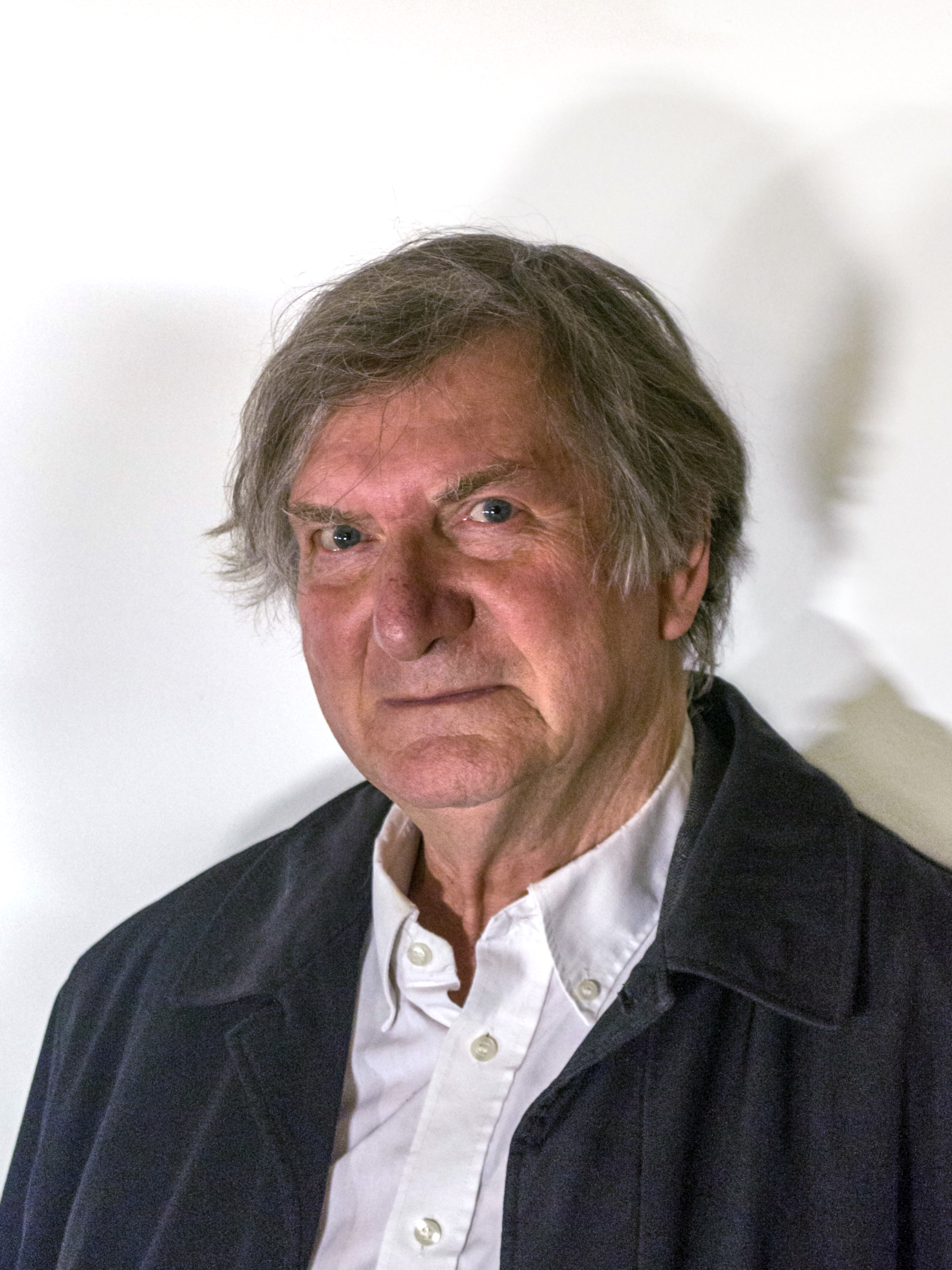 Professor Robin Cormack. Photo taken after lecture in Moravian Gallery in Brno.